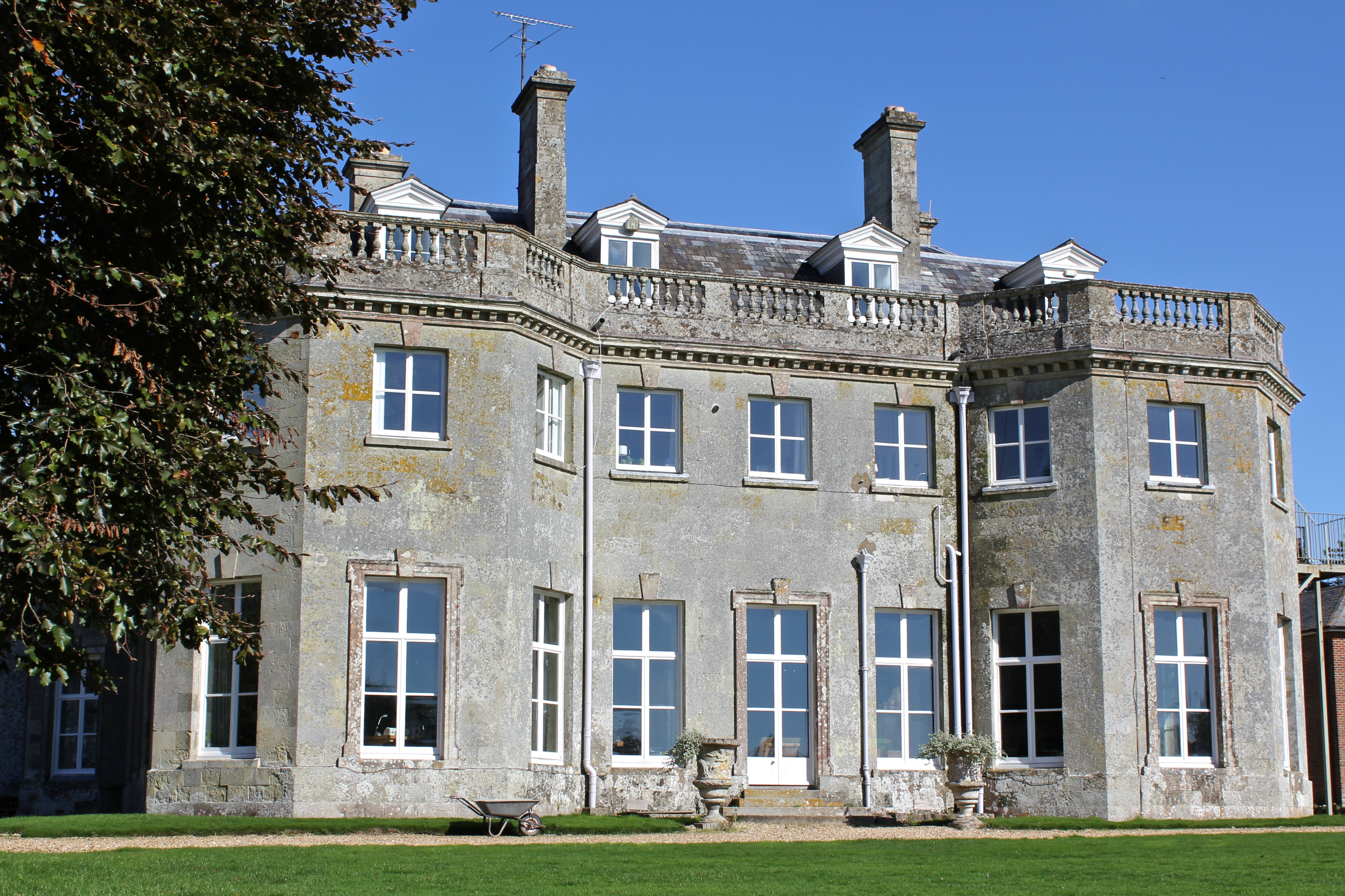 The front of the Sandroyd school, England